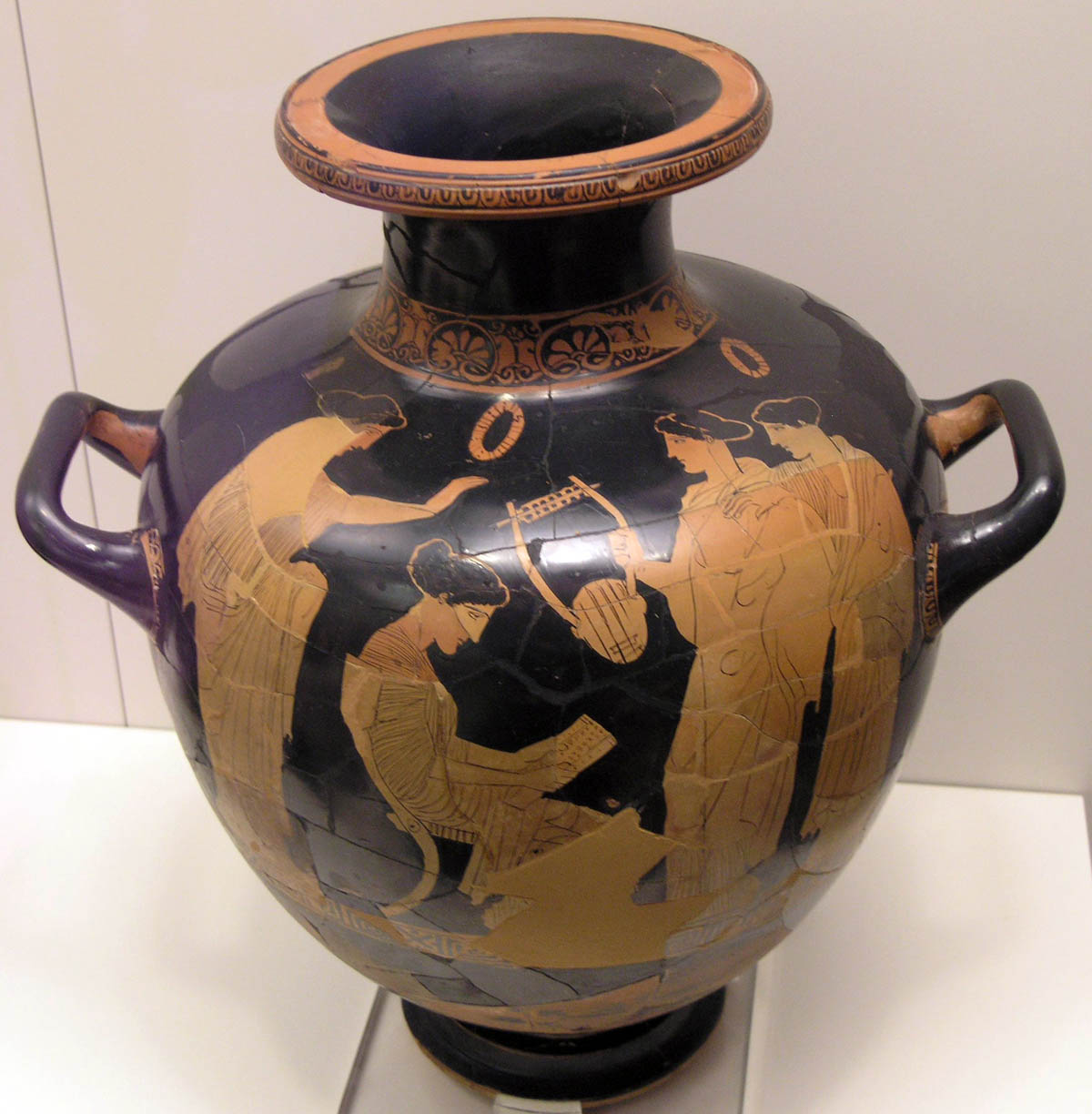 Red-figure vase (hydria, or kalpis) by the Group of Polygnotos, ca. 440–430 BC. Seated, Sappho is reading one of her poems to a group of three student-friends. National Archaeological Museum in Athens, 1260.